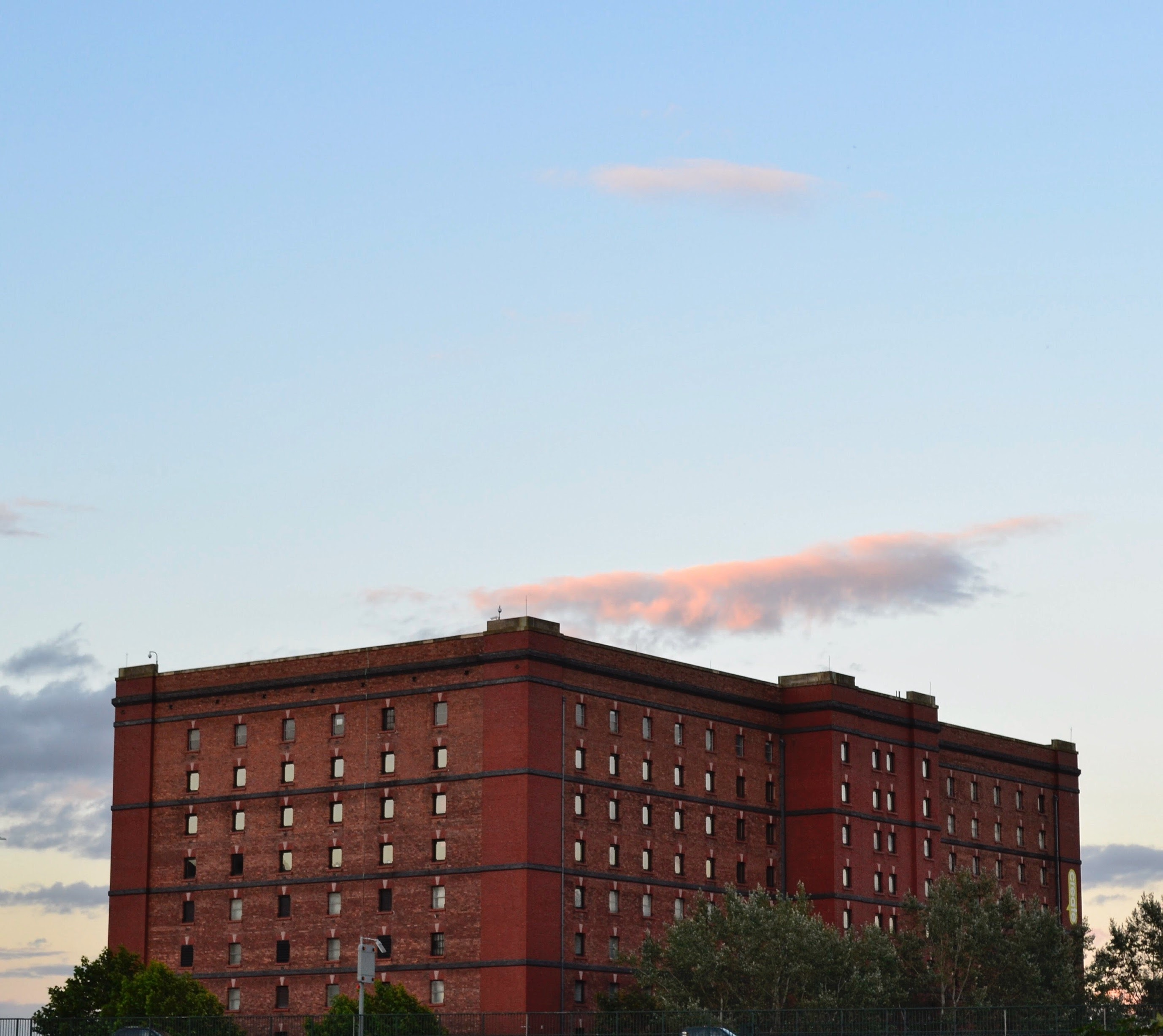 Showing the exterior of B Bond Warehouse, originally built as a tobacco storing warehouse, regenerated into Bristol Record Office and the Create Centre